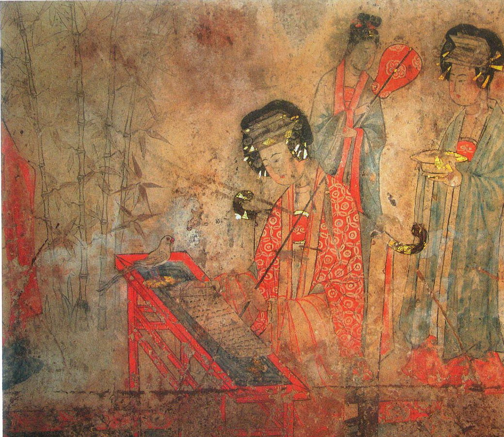 Pao-shan Tomb Wall-Painting of Liao Dynasty: Noble Consort Yang is teaching a parrot to chant sutras.